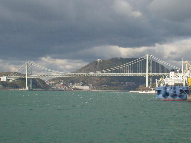 Kanmon straits bridge from Moji-Ko, Kitakyushu Photo taken by Ian Ruxton (Historian)